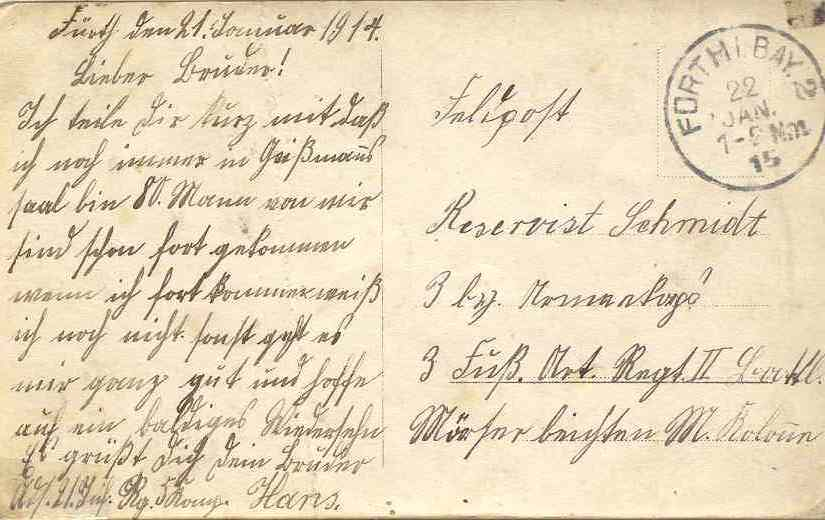 Feldpost letter from World War I.